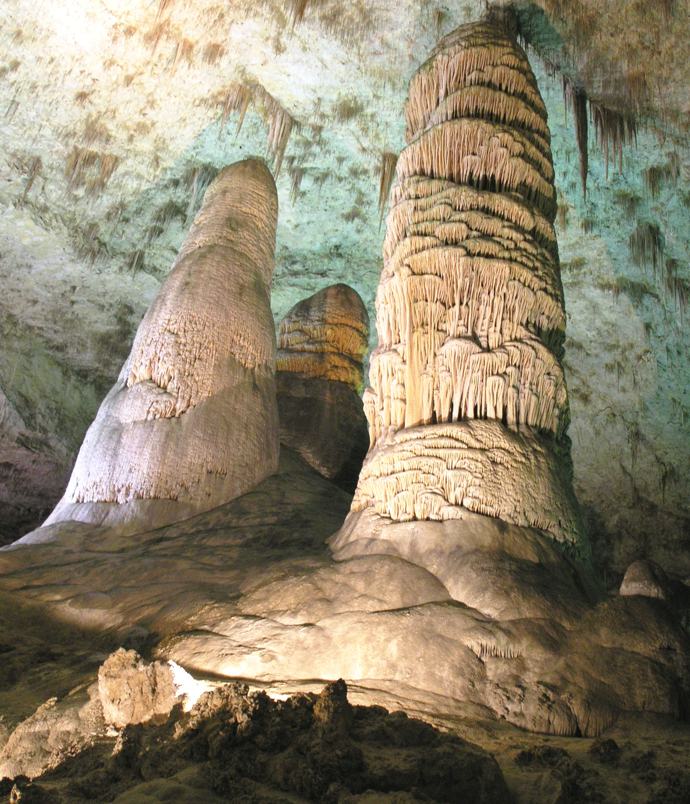 Carlsbad Caverns National Park